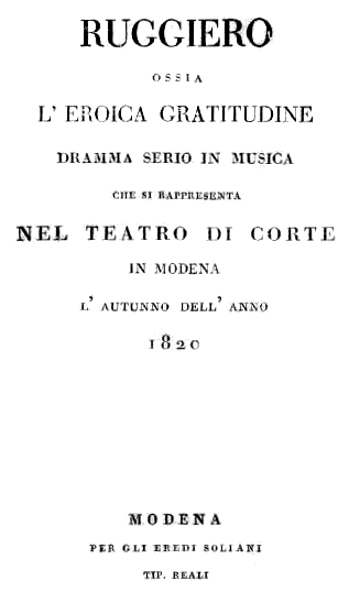 Antonio Gandini - Il Ruggiero - titlepage of the libretto - Modena 1820